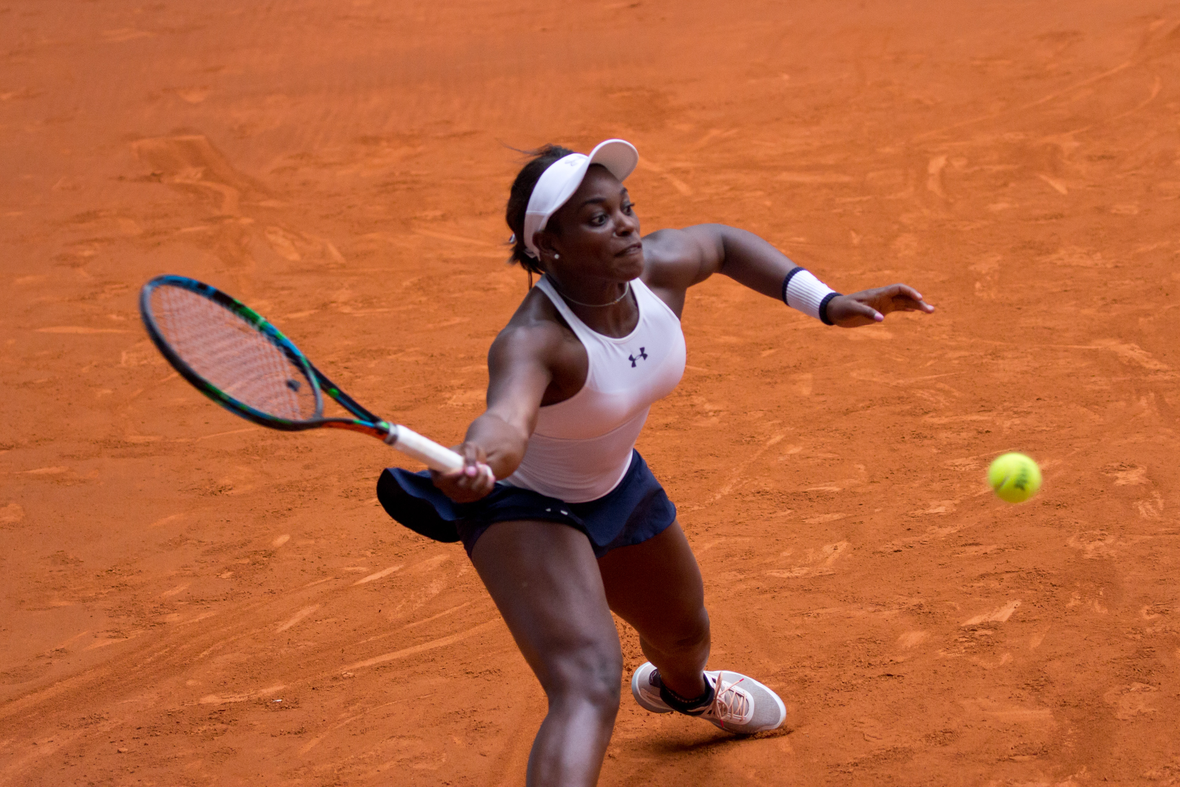 Sloane Stephens at the Madrid Open 2015, Madrid, Spain.